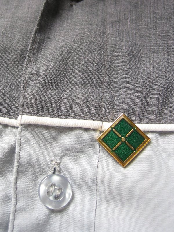 An ITIL Foundation Certificate pin on a shirt. The diamond is the ITIL logo, there are three levels for ITIL v2: Green: Foundation certificate Blue: Practitioner's certificate Red: Manager's certificate